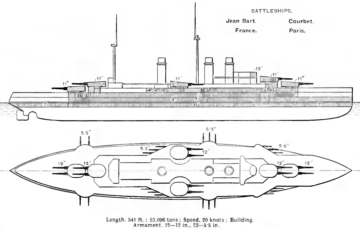 Right elevation and deck plan diagrams depicting French Courbet class battleship. Numbers on top diagram show armour thickness (shaded areas) in inches. Numbers on bottom diagram show size of guns in inches.